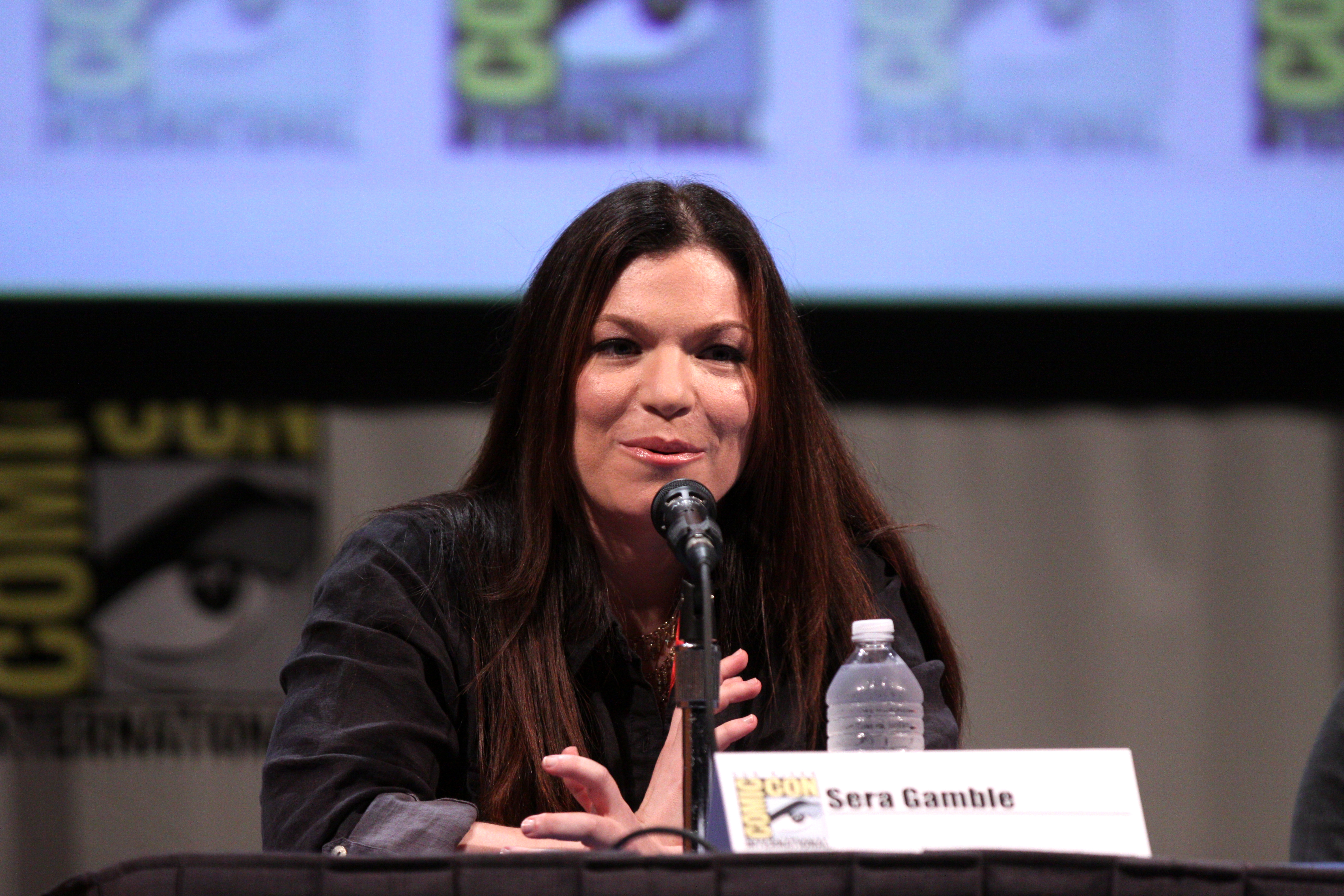 Sera Gamble at the 2011 San Diego Comic-Con International in San Diego, California.